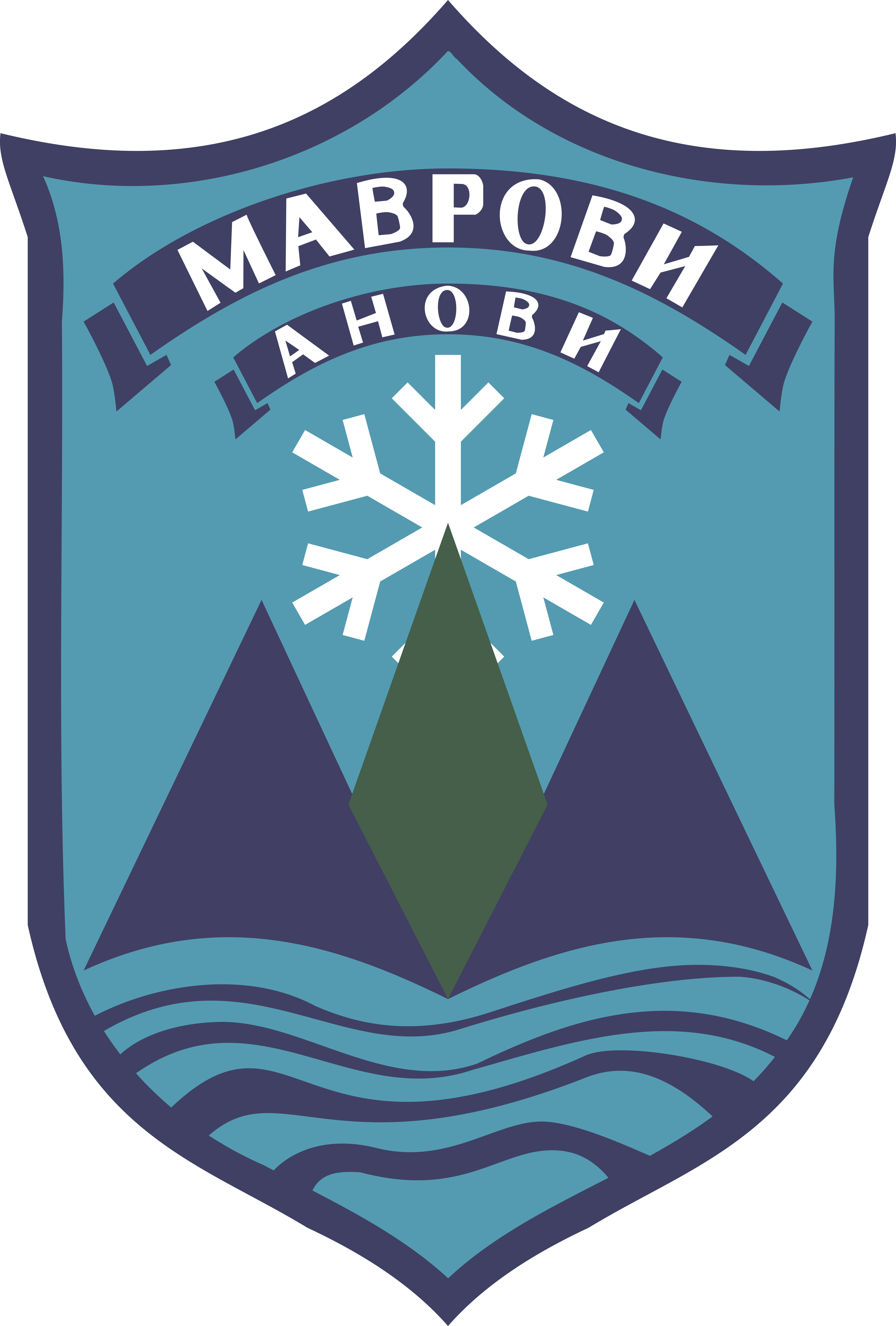 Coat of Arms of the old municipality of Mavrovi Anovi